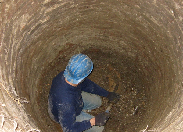 Historically excavating a brick-lined urban privy with The Manhattan Well Diggers (antique bottles and other items dating from 1855-1875).